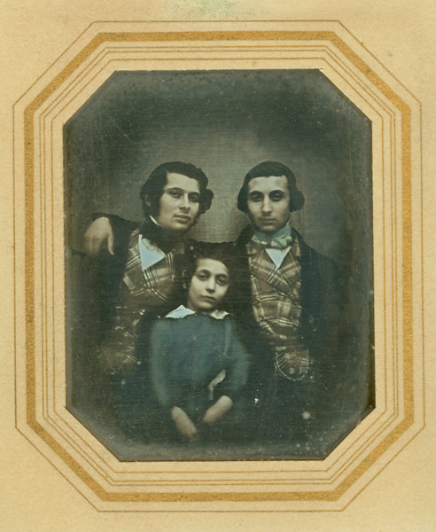 Simon Constantin (1828-1918), Eugen (1830-1905) and Alfred (1840-1913) Bensow. Simon Constantin Bensow was to become the royal dentist in Sweden,a nd was the forst official teaching dentist in Sweden 1865-1872.